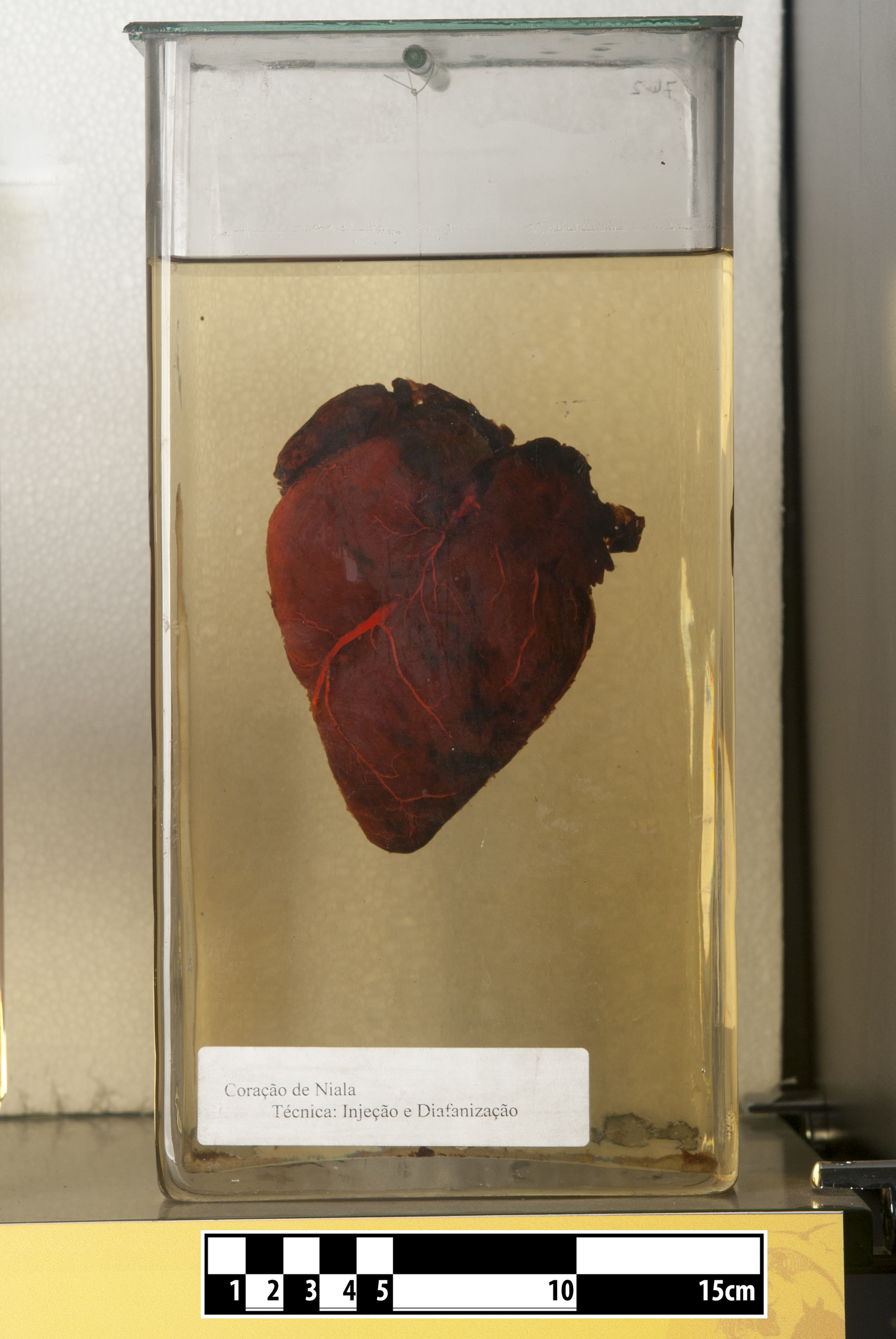 Nyala heart (Tragelaphus angasii). Gelatin injection and Spalteholz diaphanization – specimen clarified for visualization of anatomical structures on display at the Museum of Veterinary Anatomy, FMVZ USP. Spalteholz diaphanization is a tissue clearing technique, described here. This file was published as the result of a partnership between the Museum of Veterinary Anatomy FMVZ USP, the RIDC NeuroMat and the Wikimedia Community User Group Brasil. This GLAM project is reported. Photography: Museum of Veterinary Anatomy FMVZ USP. Author: Wagner Souza e Silva.